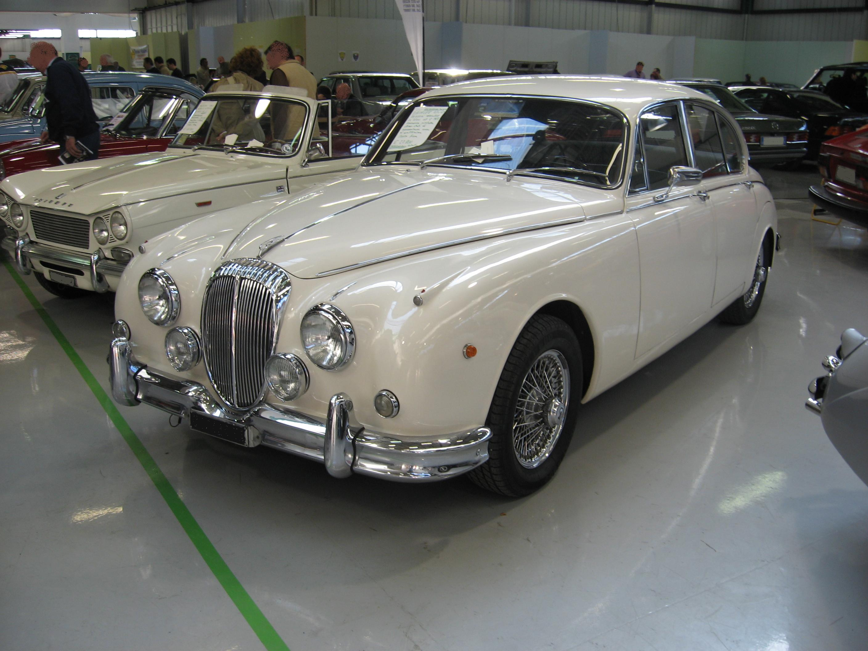 Daimler V8 250 at the Old Time Show in Forlì (Italy)